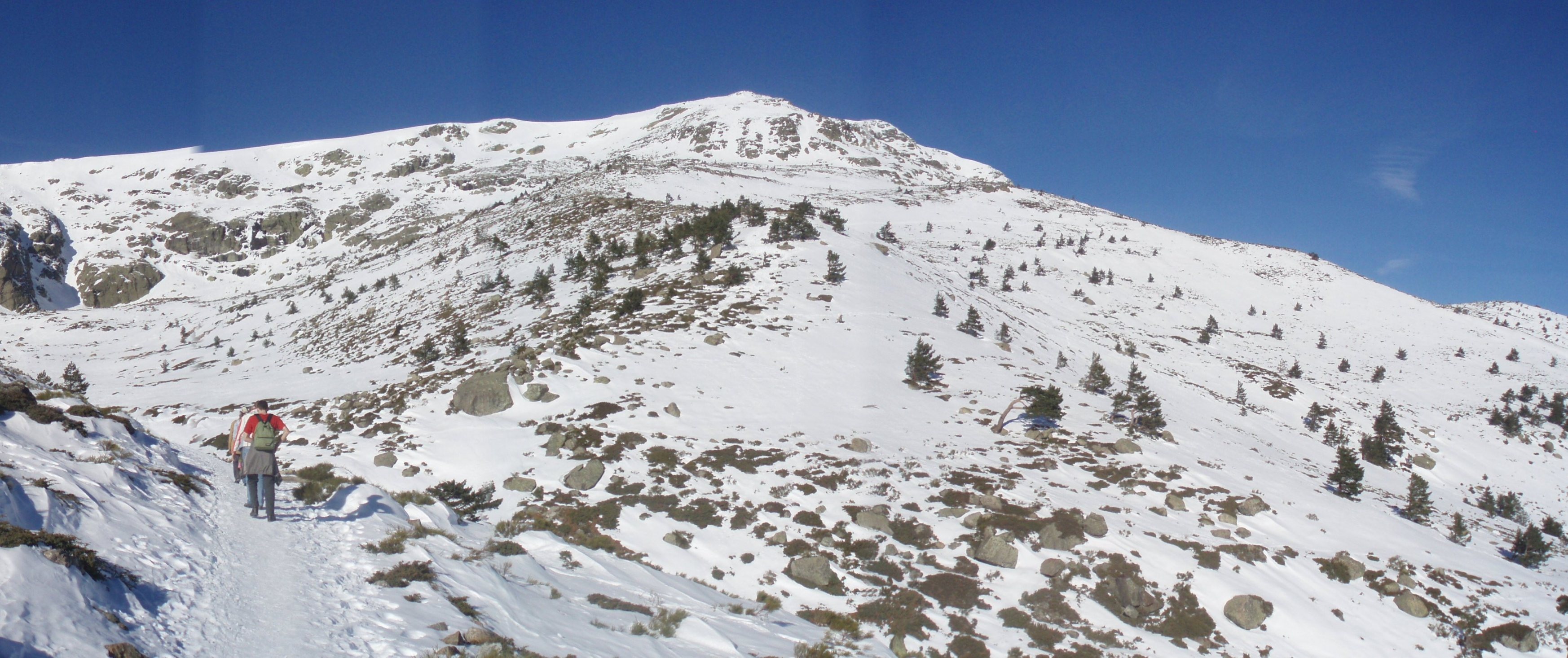 South face of Peñalara (Guadarrama mountain range, Central Spain).